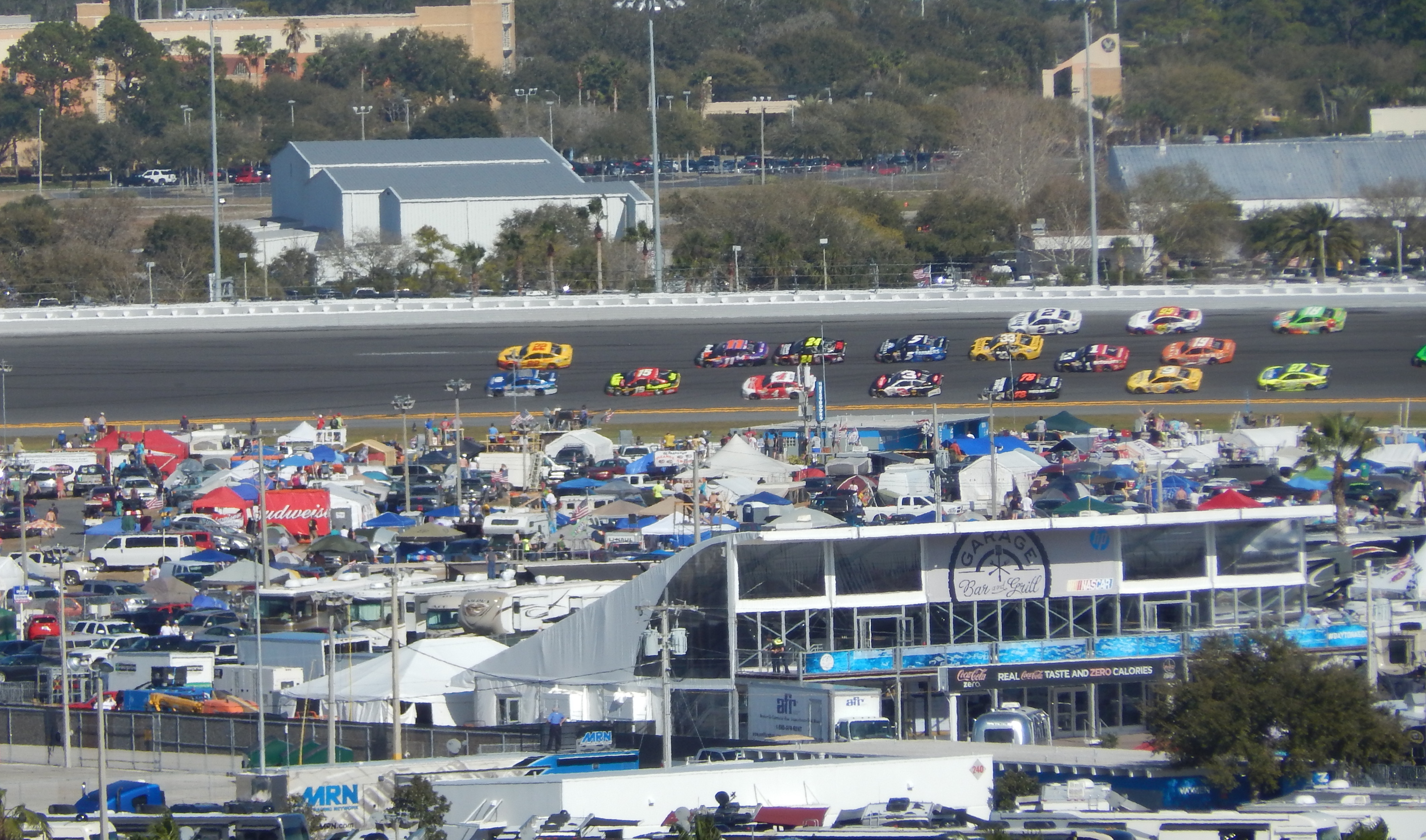 Dale Earnhardt Jr. takes the lead with 85 laps to go in the 2015 Daytona 500.